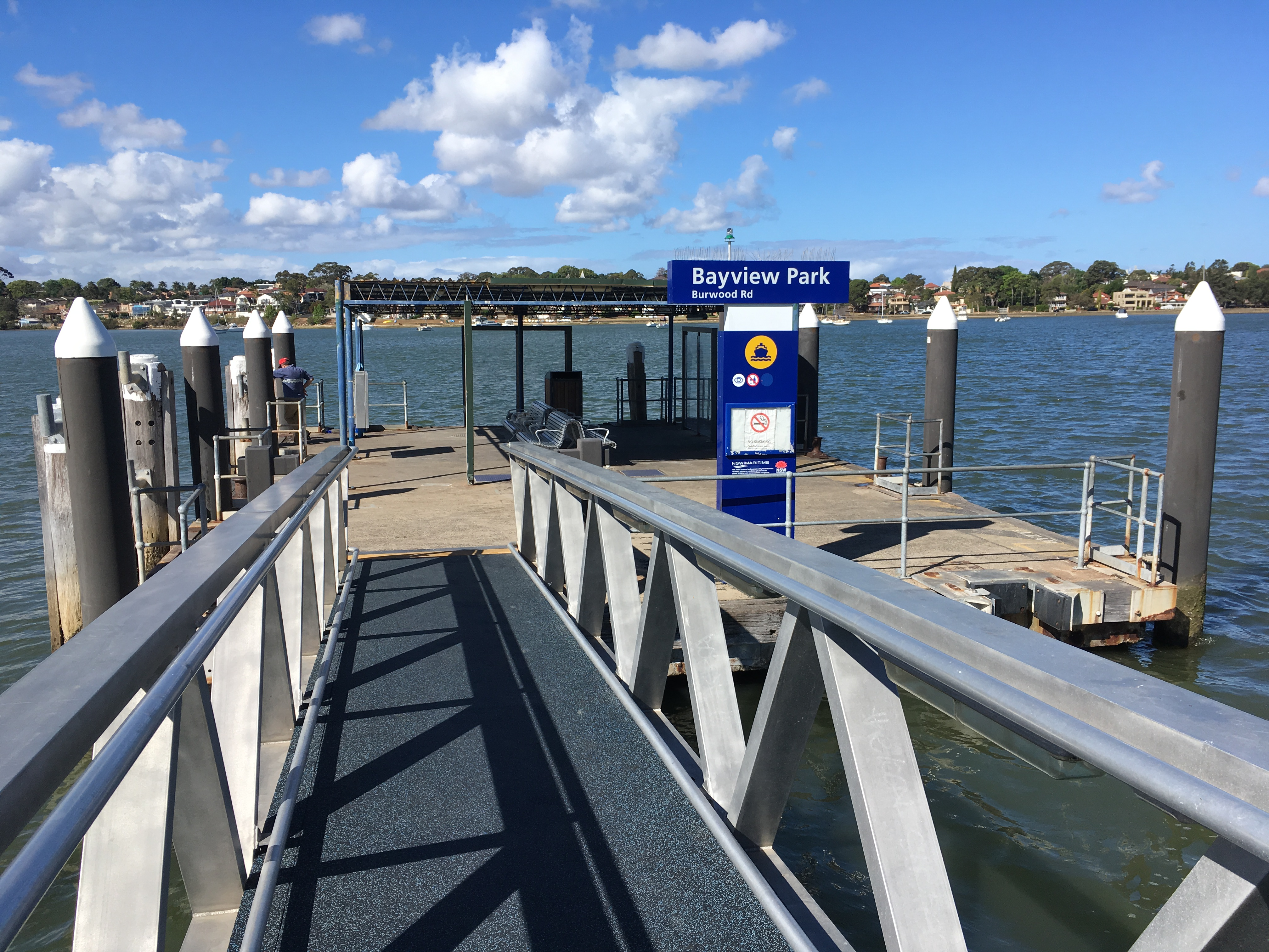 View of the pontoon at Bayview Park ferry wharf, as it was in October 2017. The wharf, which has not seen regular ferry services since Sydney Ferries cancelled their Parramatta River service to the wharf in October 2013, is in relatively good condition despite the fact that it has not served any practical purpose for the past four years. The pontoon itself is relatively new, being installed in July 2013 to house a shelter and fixed seating.